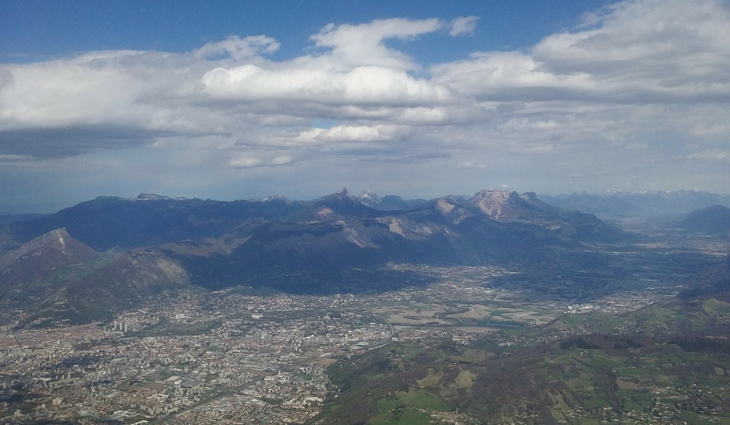 The Chartreuse Mountains seen from a glider with the Grésivaudan on the right.